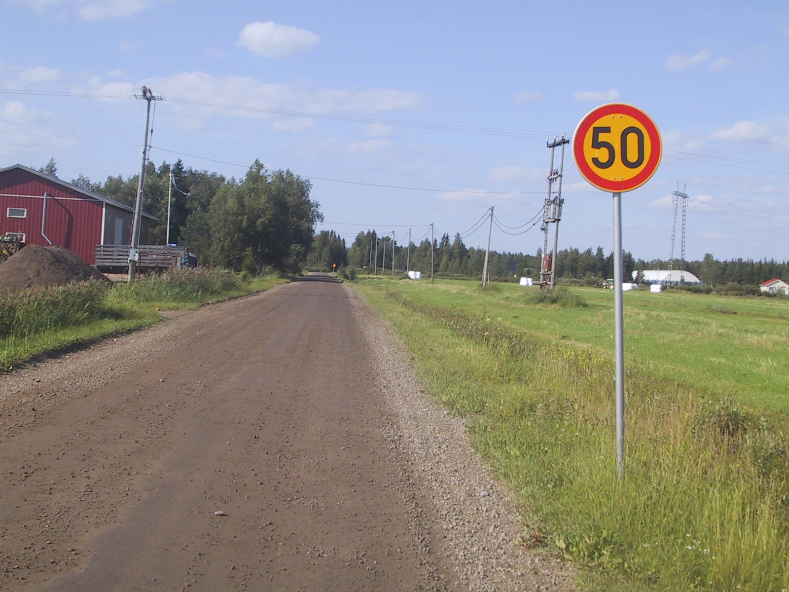 Rajakorpi in Kempele, Finland